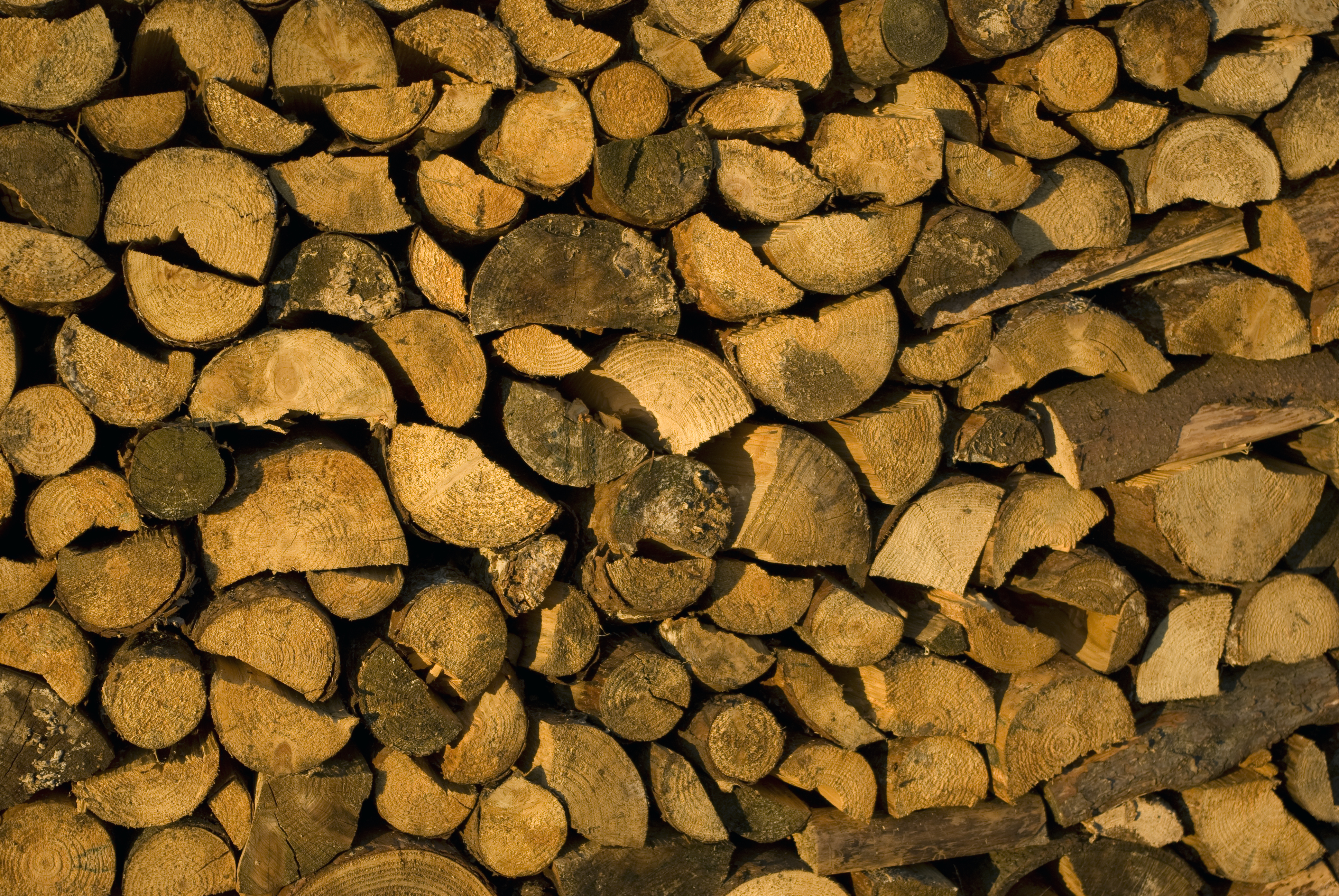 firewood